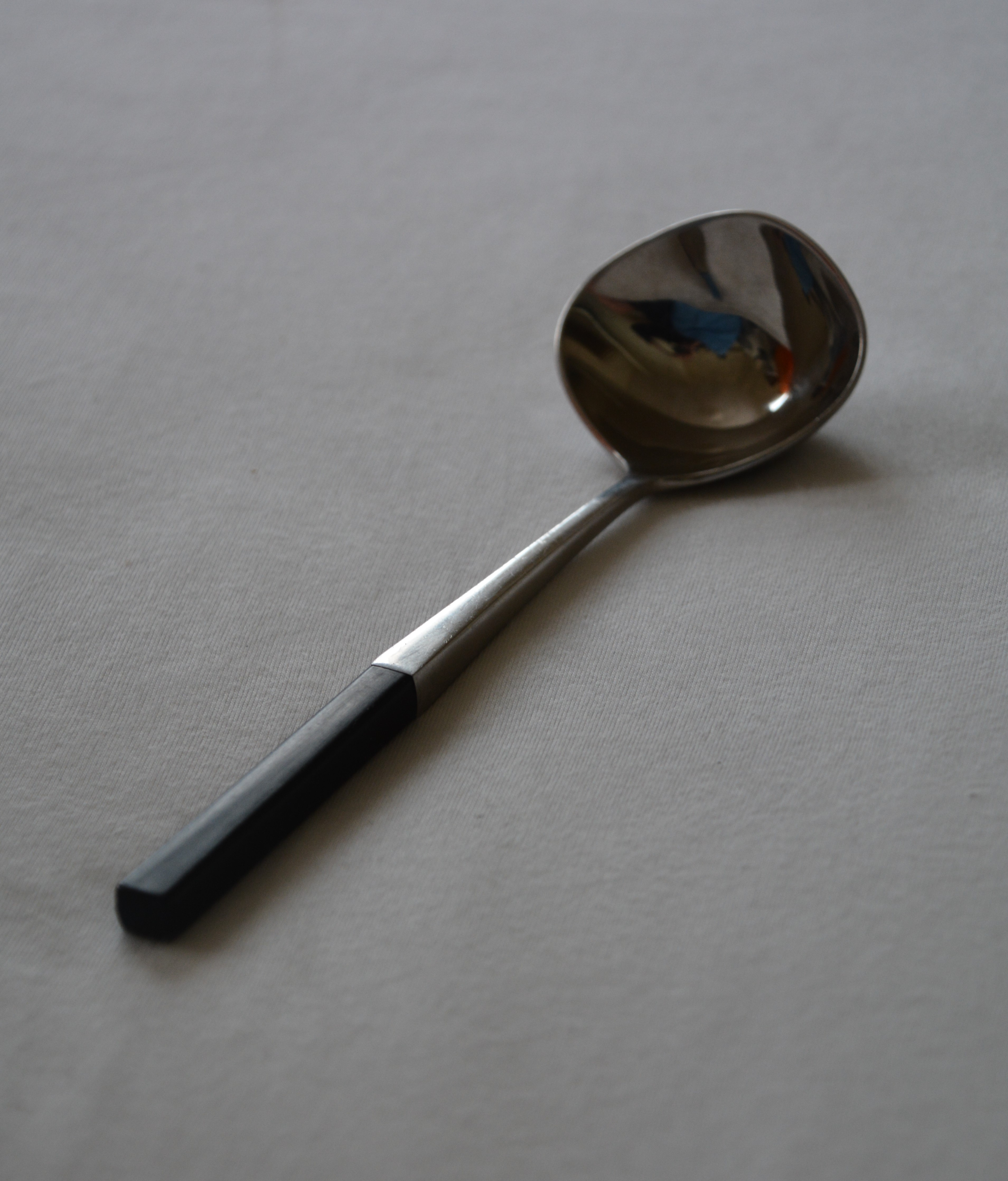 Cutlery (sauce spoon) by Tias Eckhoff, produced by Lundtofte- Designmodel Opus from 1958